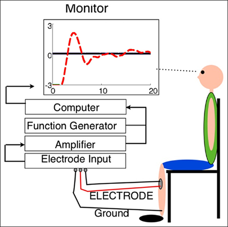 Electromyography (EMG) was collected from surface electrodes placed over tibialis anterior muscle while subjects sat in chair. EMG signal was amplified and processed, then sent to computer in parallel with input from function generator. EMG signal controlled movement of virtual object position, and function generator controlled target. Computer displayed in real time the virtual object and target's position to screen in front of subjects.